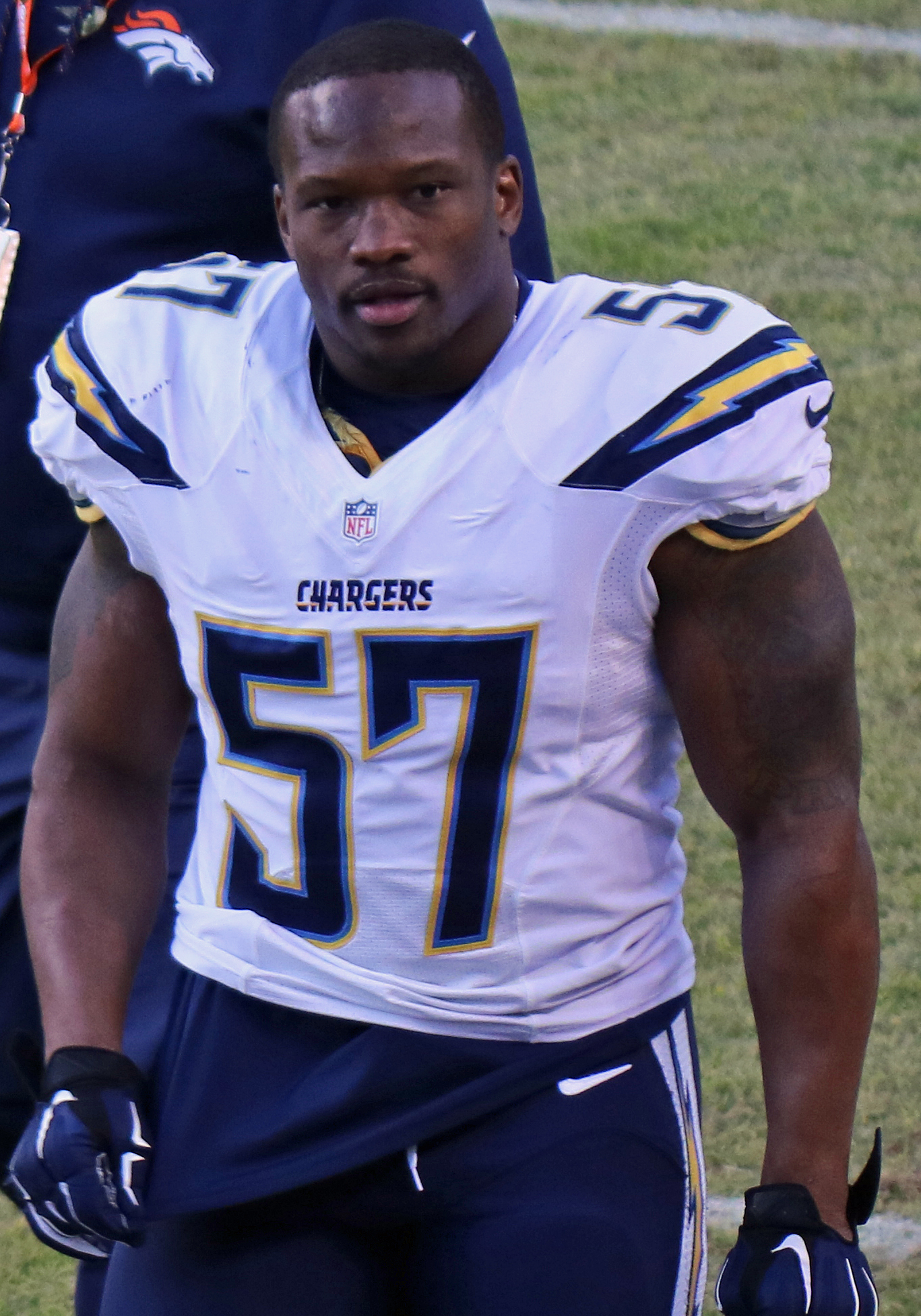 Joe Mays, a player on the National Football League.